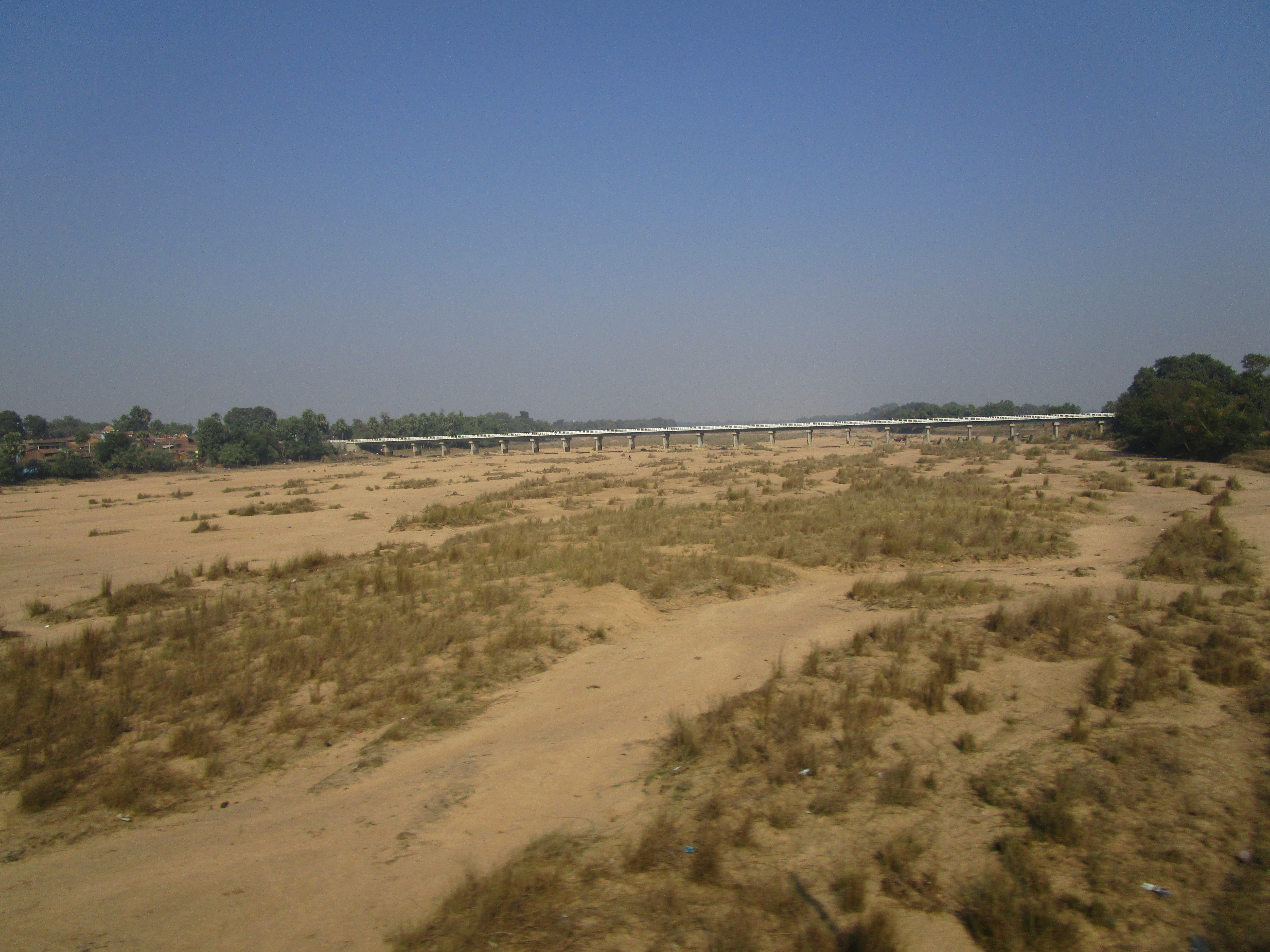 Morhar River at Gaya, Bihar